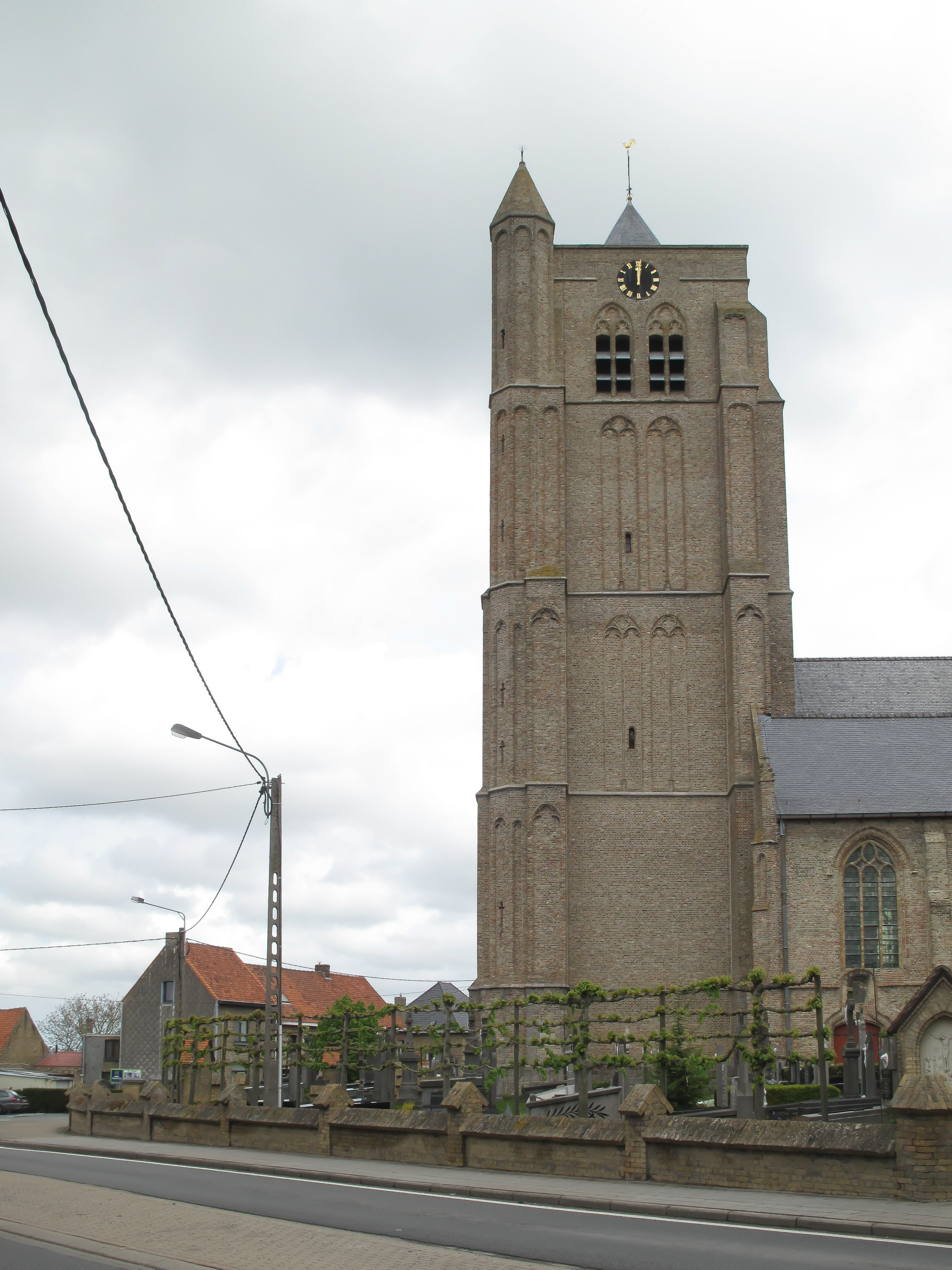 Esen, church: parochiekerk Sint Pieter